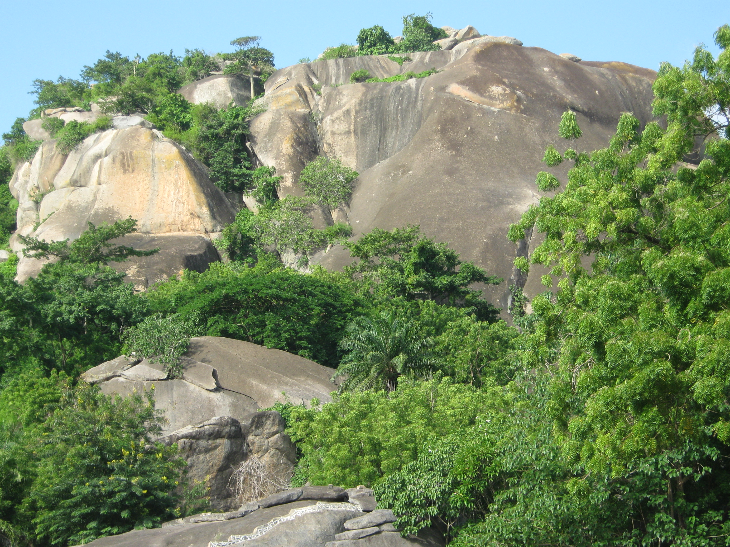 These hills cover a large part of the city of Dassa. There are large and small ones.